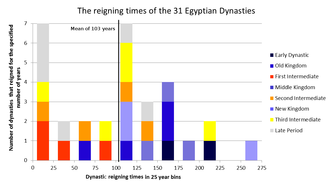 Individual dynasties in Ancient Egypt did not fare very long. Out of the thirty-one dynasties spanning nearly 3000 years, the longest-lived was the 18th dynasty, the dynasty of the pharaoh Tutankhamun, which span 257 years (1549-1292 BC). The shortest, the single pharaoh 28th dynasty, lasted 6 years (404-398 BC). This chart places the 31 dynasties in 25-year slices according to the amount of time for which they held power. Colours of the bars represent the period of the dynasties as indicated in the legend. The early dynastics and the three Kingdoms (Old, Middle, New) are blue, with darker colours meaning older. Intermediate periods are red, orange, and yellow. Note that up multiple dynasties could reign (from different cities) simultaneously during these periods (and briefly as well at the end of the Middle Kingdom) For example, seven dynasties lasted between 100 and 125 years, two of these dynasties being from the New Kingdom.